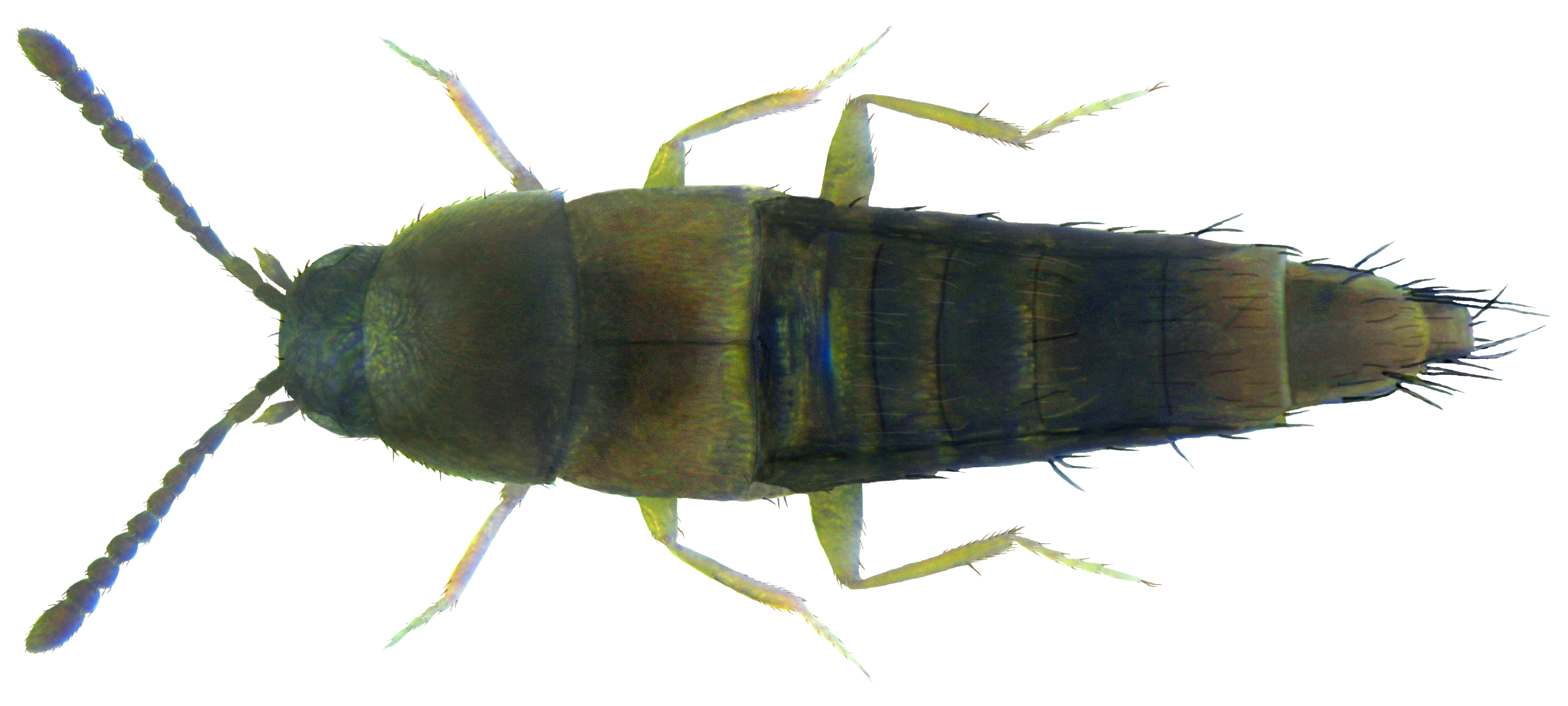 Family: Staphylinidae Size: 2.1 mm Location: Malaysia, Langkawi, Berjaya, cattle dung U.Schmidt leg, 7-22.XI 2009; det. R.Pace, 2011 Photo: U.Schmidt, 2012